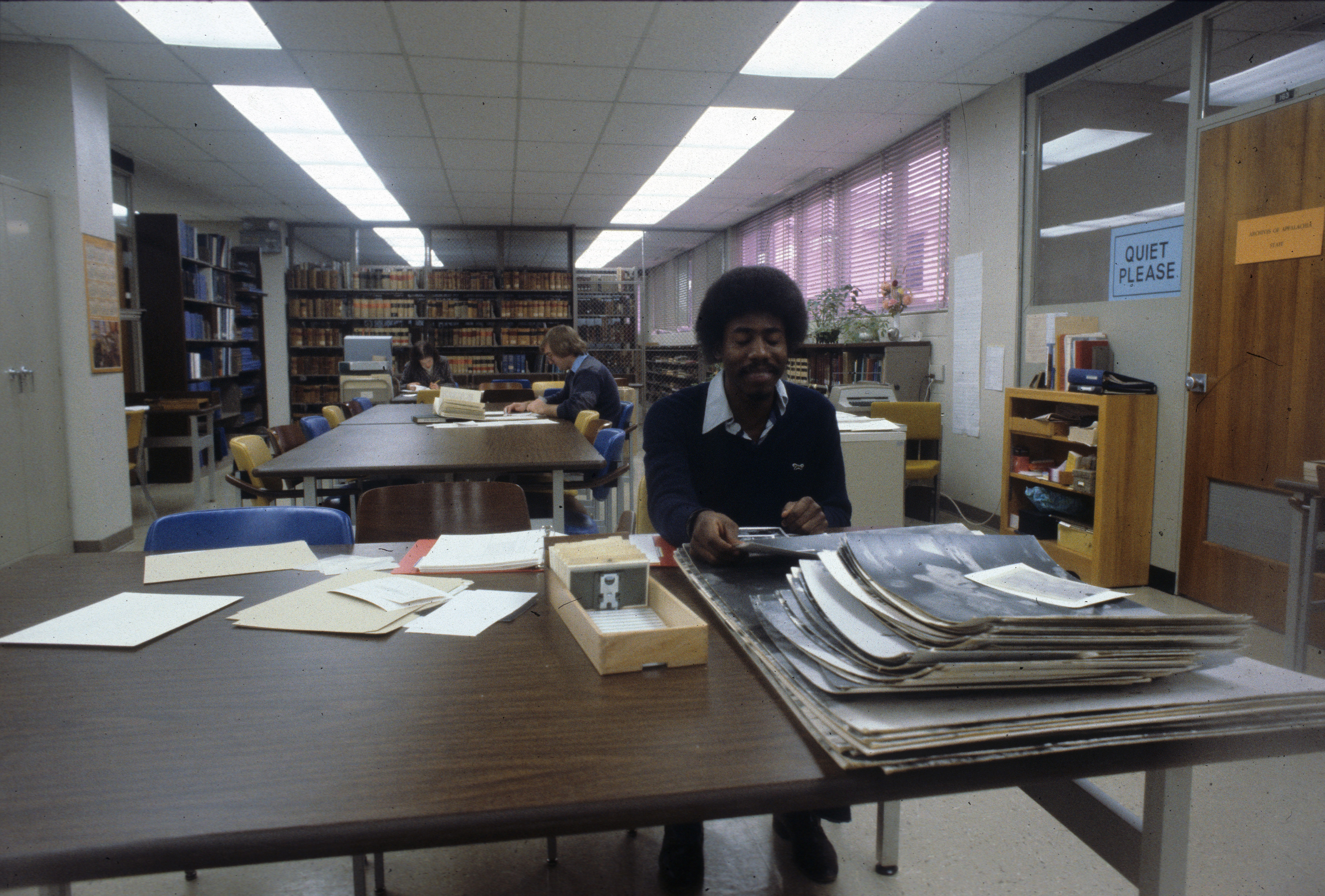 Archives of Appalachia in the old Sherrod Library, presently called Nicks Hall on ETSU campus.